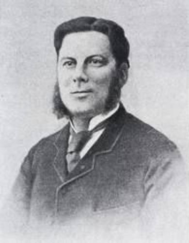 Photo portrait of Charles Henry Philippe Lévêque de Vilmorin (26 February 1843 - 23 August 1899), botanist